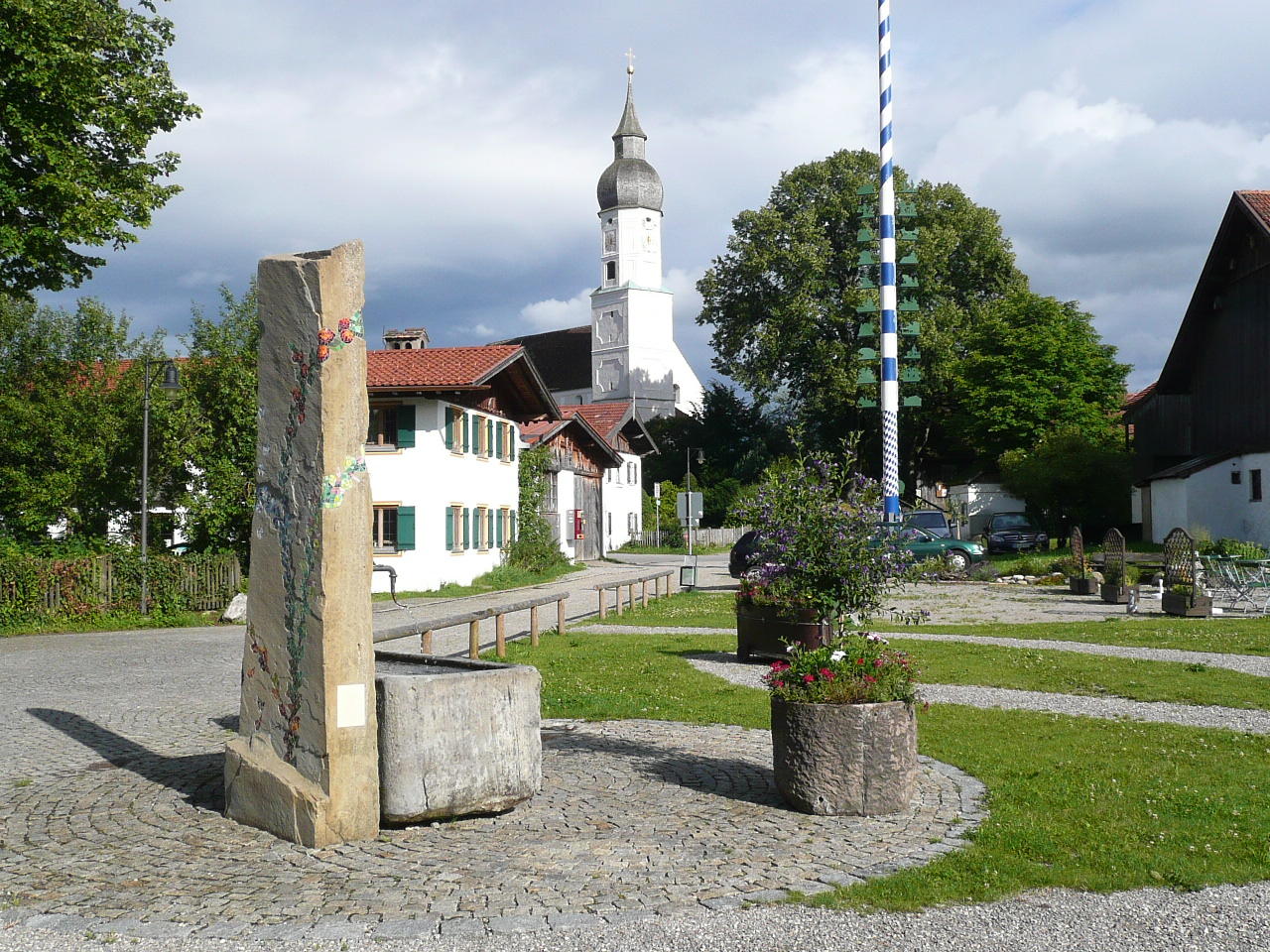 Maypole, fountain in Bad Bayersoien, church, Upper Bavaria